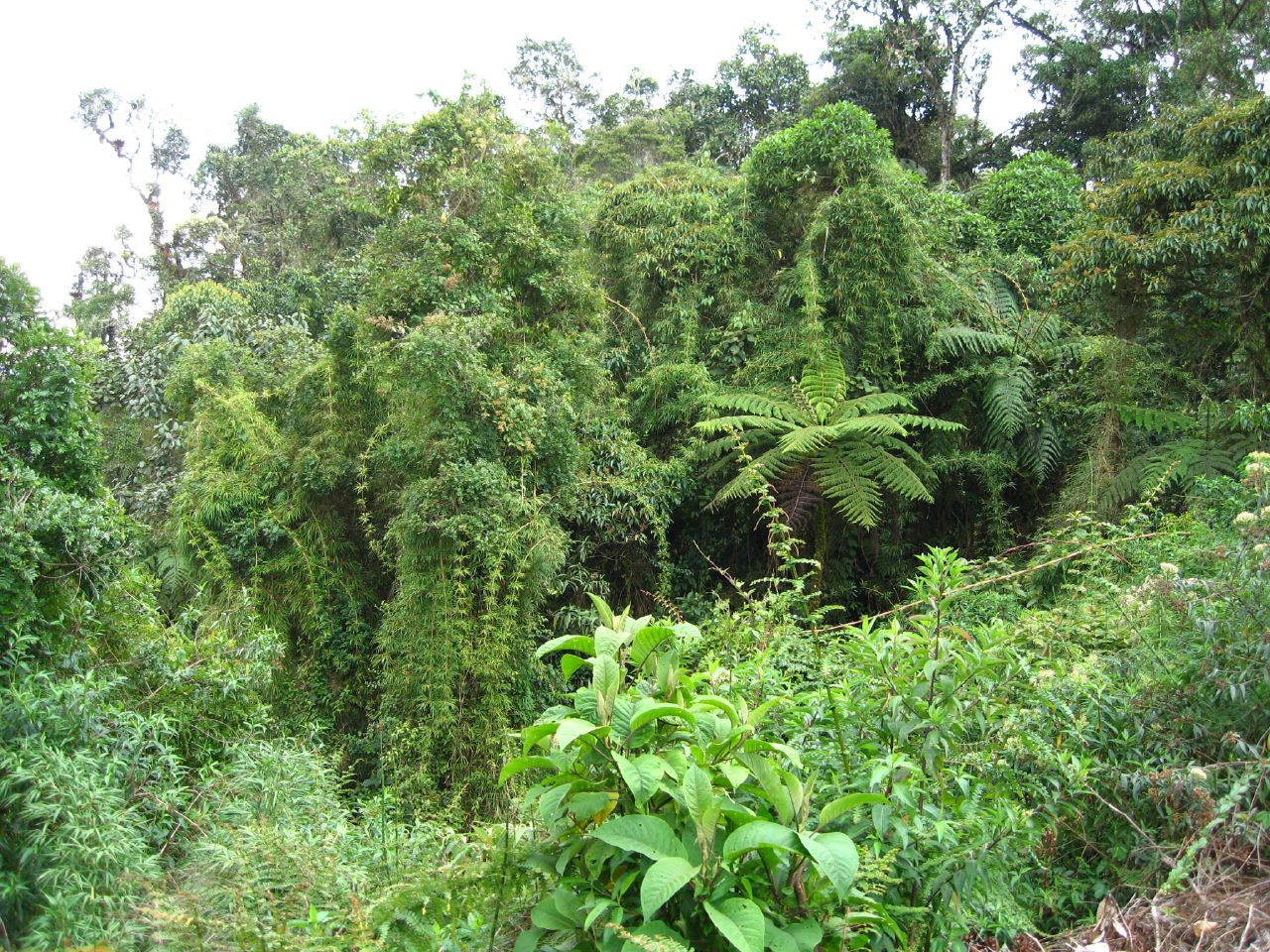 bamboo and ferns in peruvian rainforest